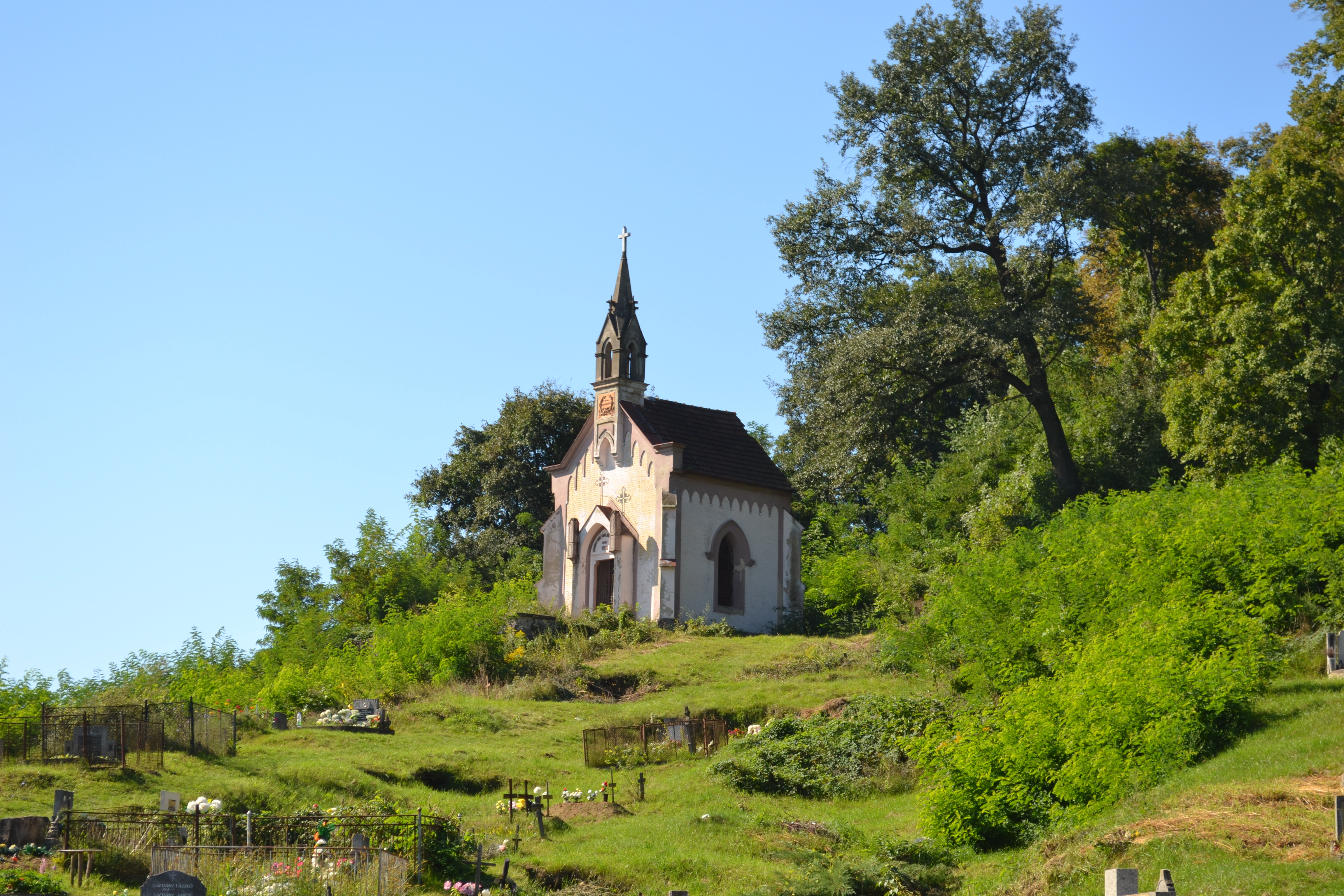 Chapel of St. Anne in Hodejov